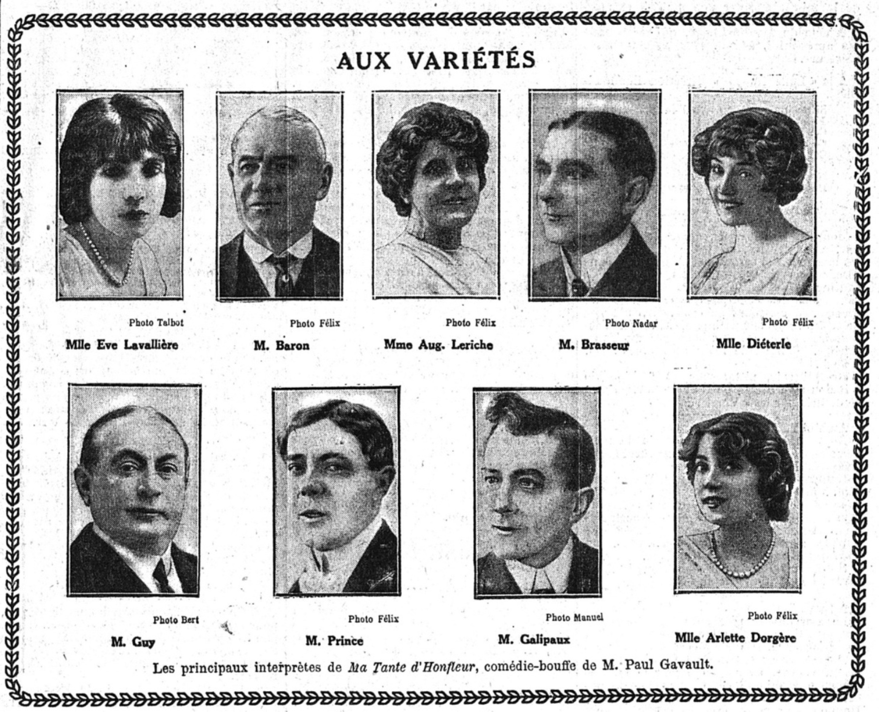 My Aunt Honfleur is a comedy in three acts by Paul Gavault, played at the théâtre des Variétés in 1914 and resumed in 1922. Performers : Ève Lavallière, Louis Baron, Augustine Leriche, Albert Brasseur, Amélie Diéterle, George Guillaume Guy, Charles Prince, Félix Galipaux and Arlette Dorgère.